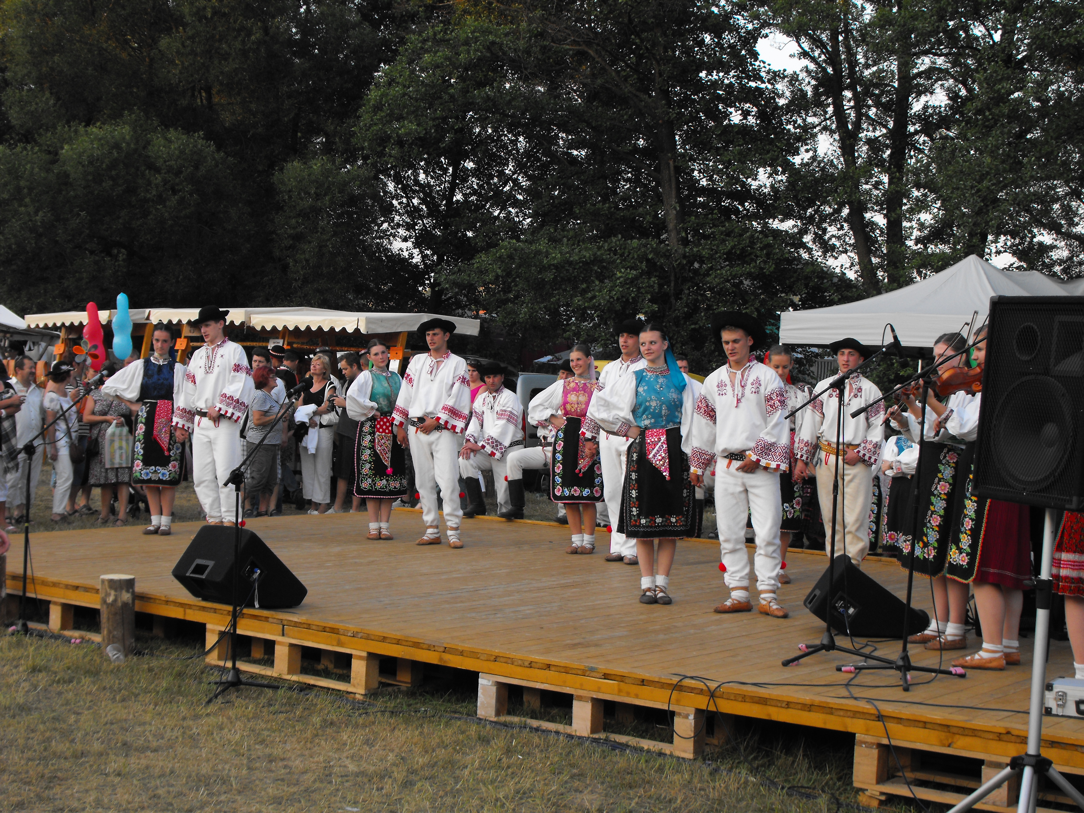 Folklore group on Folklore festival beneath Poľana in Detva, Slovakia.